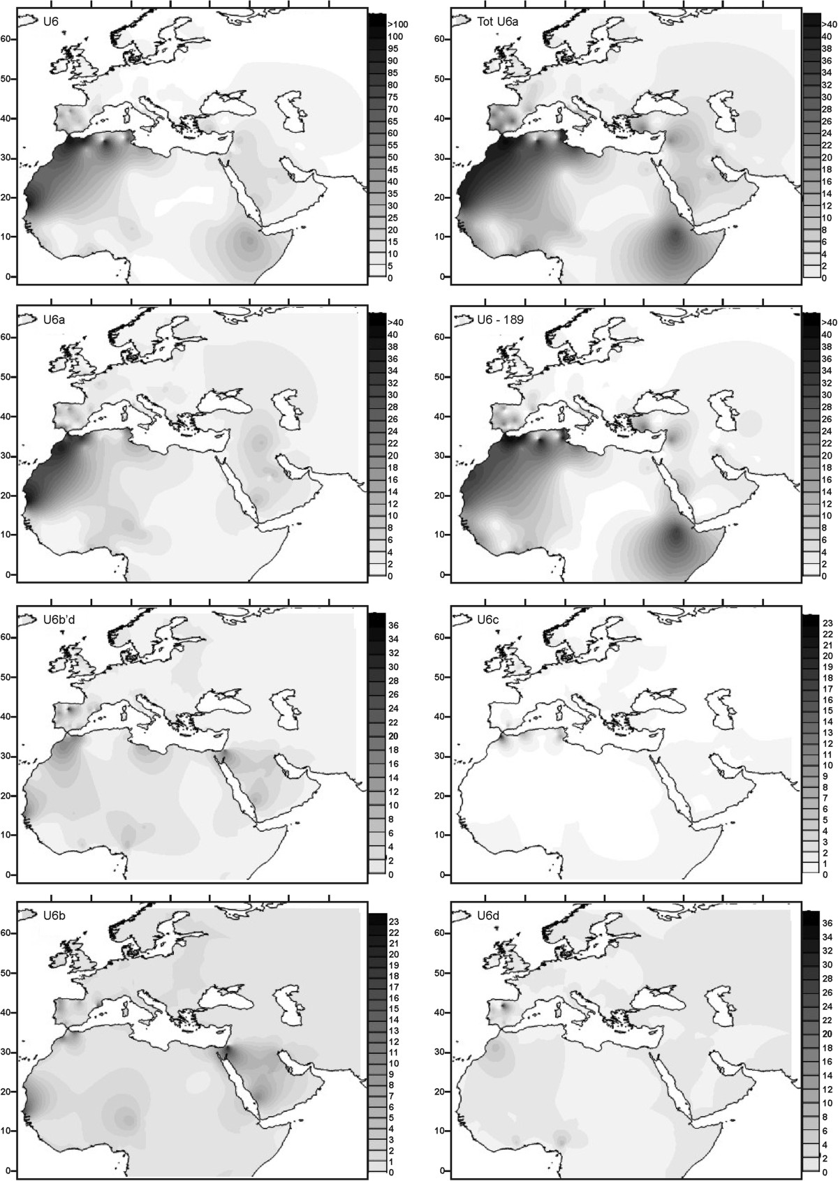 Frequency maps for mtDNA haplogroup U6 and several sub-groups from a total of 237 sample locations, across the African Continent, Europe and the Middle East. Based on HVI (hypervariable region 1) frequencies (in o/oo), for total U6 (U6), total U6a (Tot U6a), U6a without 16189 (U6a), U6a with 16189 (U6a-189), U6b'd, U6c, U6b and U6d.